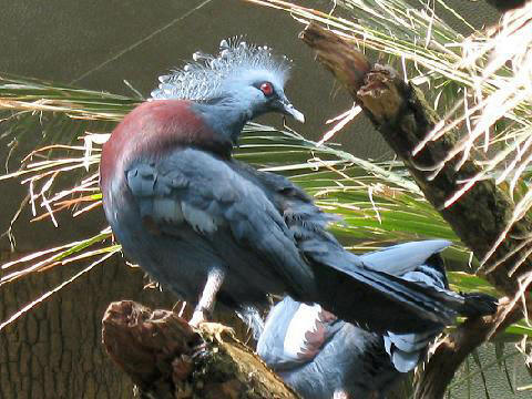 Description: Victoria Crowned Pigeon - Source: own work - Location: Central Park Zoo, New York - Author: self, User:Stavenn